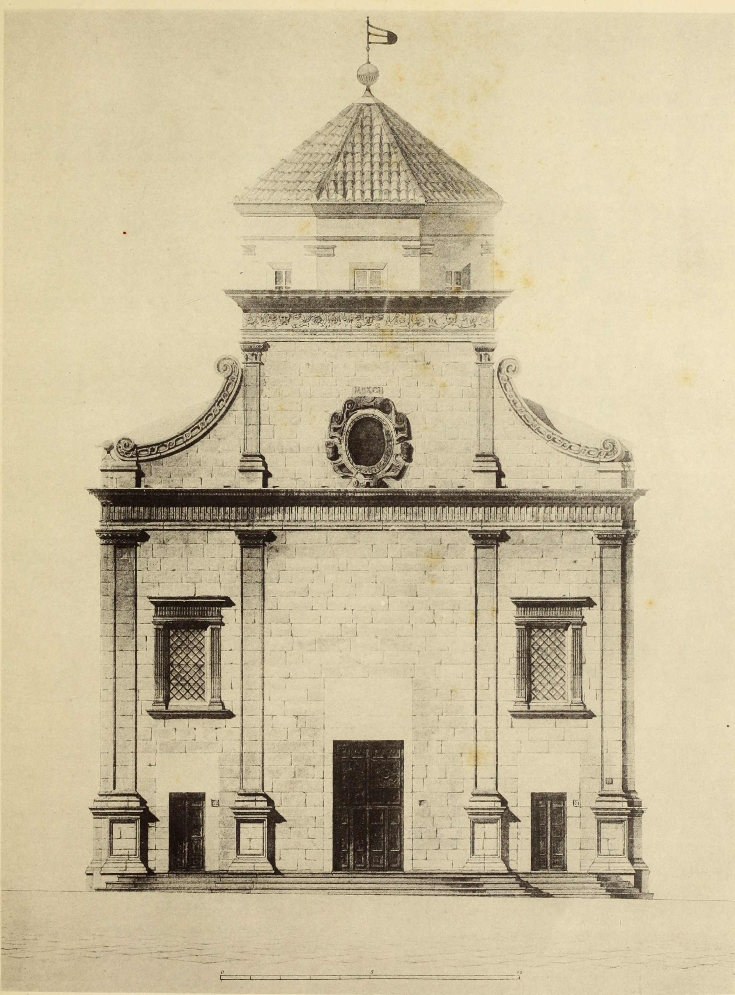 Title: La Chiesa di S. Giorgio dei Genovesi in Palermo Year: 1904 (1900s) Authors: Paterna Baldizzi, Leonardo, 1868-1943 Subjects: Chiesa di San Giorgio dei Genovesi (Palermo, Italy) Church buildings Church architecture Publisher: Torino : N. Bertolero Text Appearing Before Image: che dovette essere eseguito da operai del Carabio, diretti dal Di Faccio. La sottilezza delle lesene alte dodici diametri, che reggono la trabeazione, apparentemente,è carattere bramantèo di architettura transitoria e questordine cosi posto avvalora il mio ar-gomento: che nel carattere generale questo monumento, del 1576, apparterrebbe allo stile ditransizione del quattrocento al cinquecento. Ad ogni modo cosi come è, appartenente per data al decimosesro secolo, è la più bellaChiesa di questepoca che noi abbiamo nella città di Palermo ; e la sua importanza artisticadovrebbe decidere chi veglia alle sorti dei nostri tesori dArte a farne un Monumento na:(tonale,rimetterne le poche parti manchevoli, quale il graffito sulla lapide prima, e le Cappelle abbandonatee, dopo uno scrostamento generale di quella calce di color bianco imprudente, restaurare o toglierequelle case che la cupidigia ha fatto edificare sopra parte dei tetti della Chiesa stessa. Roma, Ottobre 1905. TAVOLE TAV. I Text Appearing After Image: CHIESA DI S. GIORGiO DEI GENOVESI IN PALERMORilievi) dellArdi. L. Paterna-Baldizzi. - FACCIATA TAV. Il